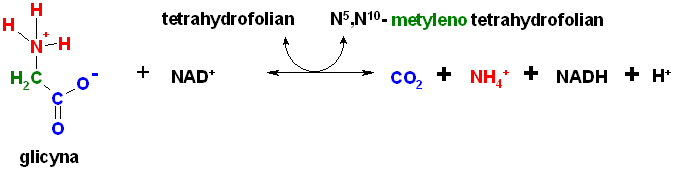 Glycine degradation to carbon dioxide; description on image in Polish